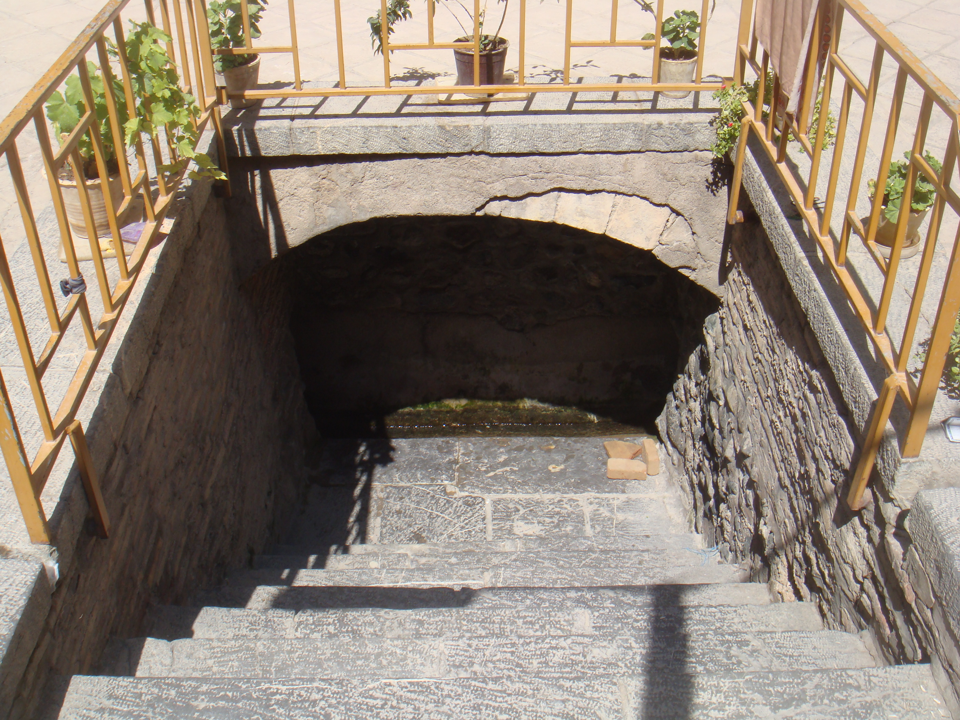 Qanat at Jameh Mosque in Natanz